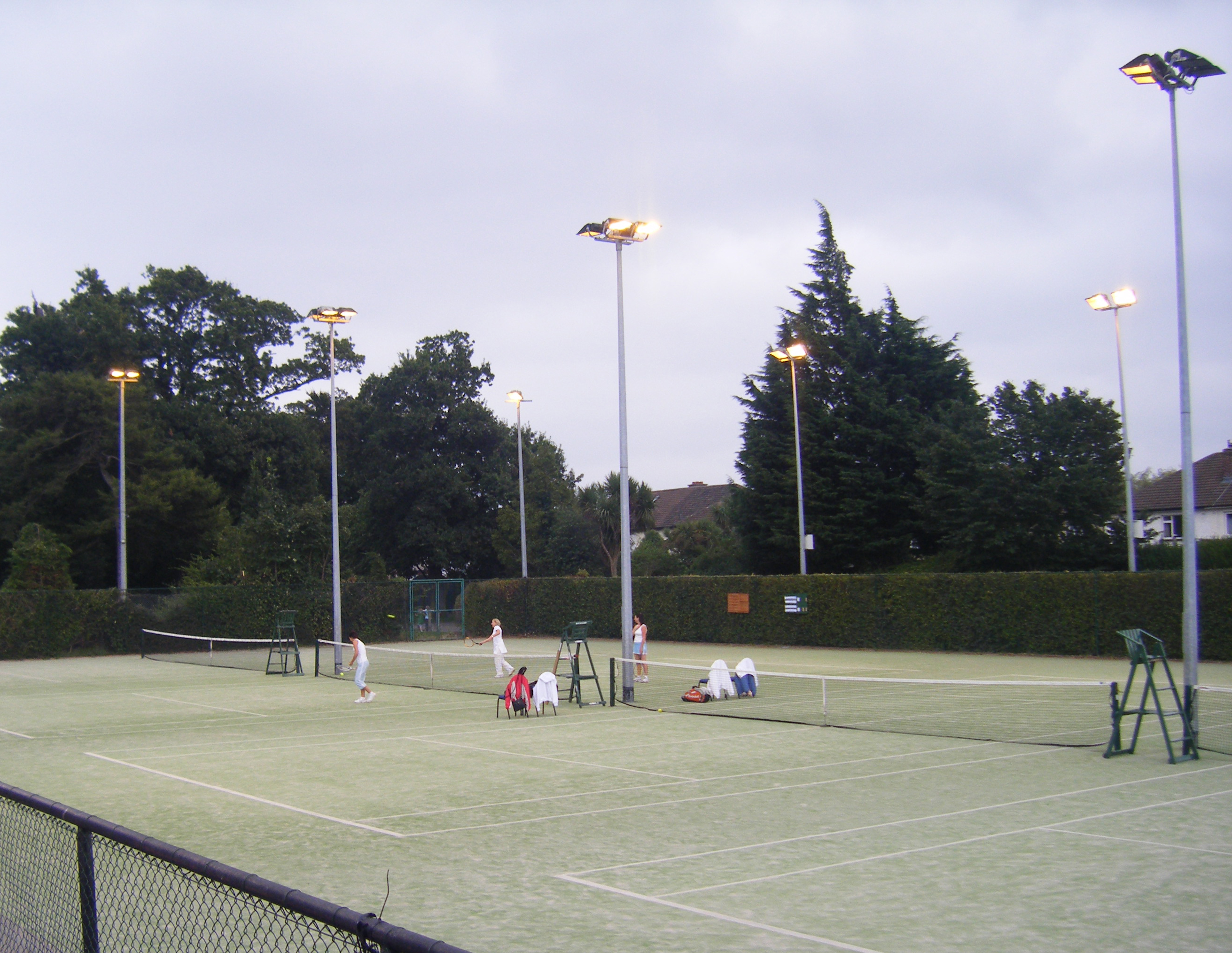 View of Deerpark Tennis Club